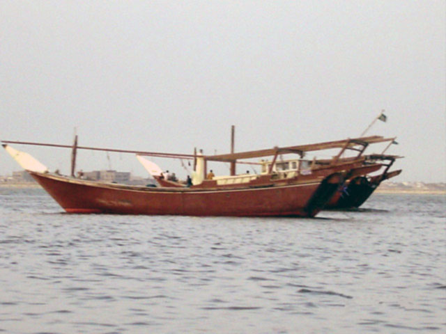 Sanabes represent an important place among sailors and pearl merchants